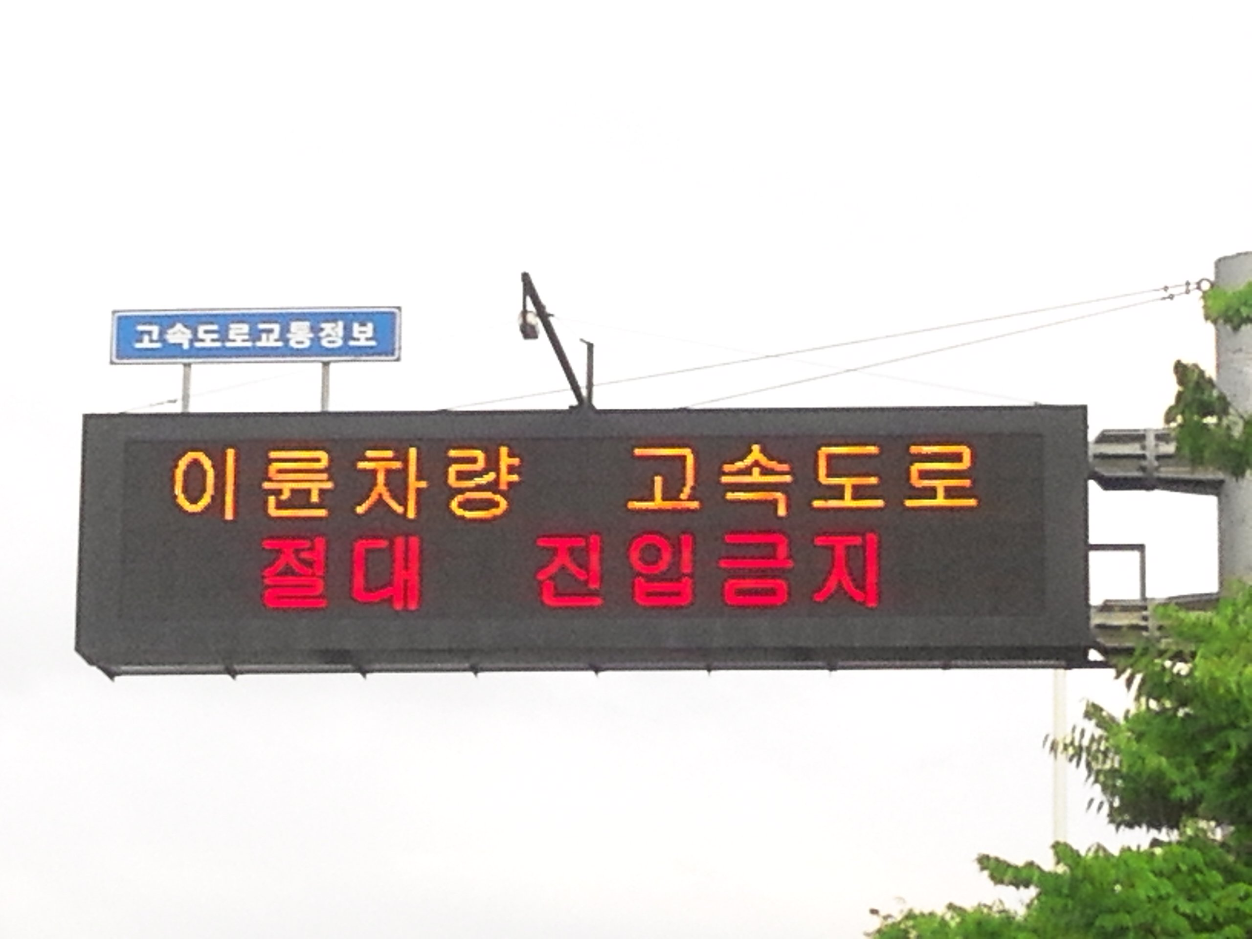 Electronic display board of South Korea Expressway Enterance - Two wheeled Vehicles(Motorcycles, Motorbikes) Strictly prohibited entry the Expressway.